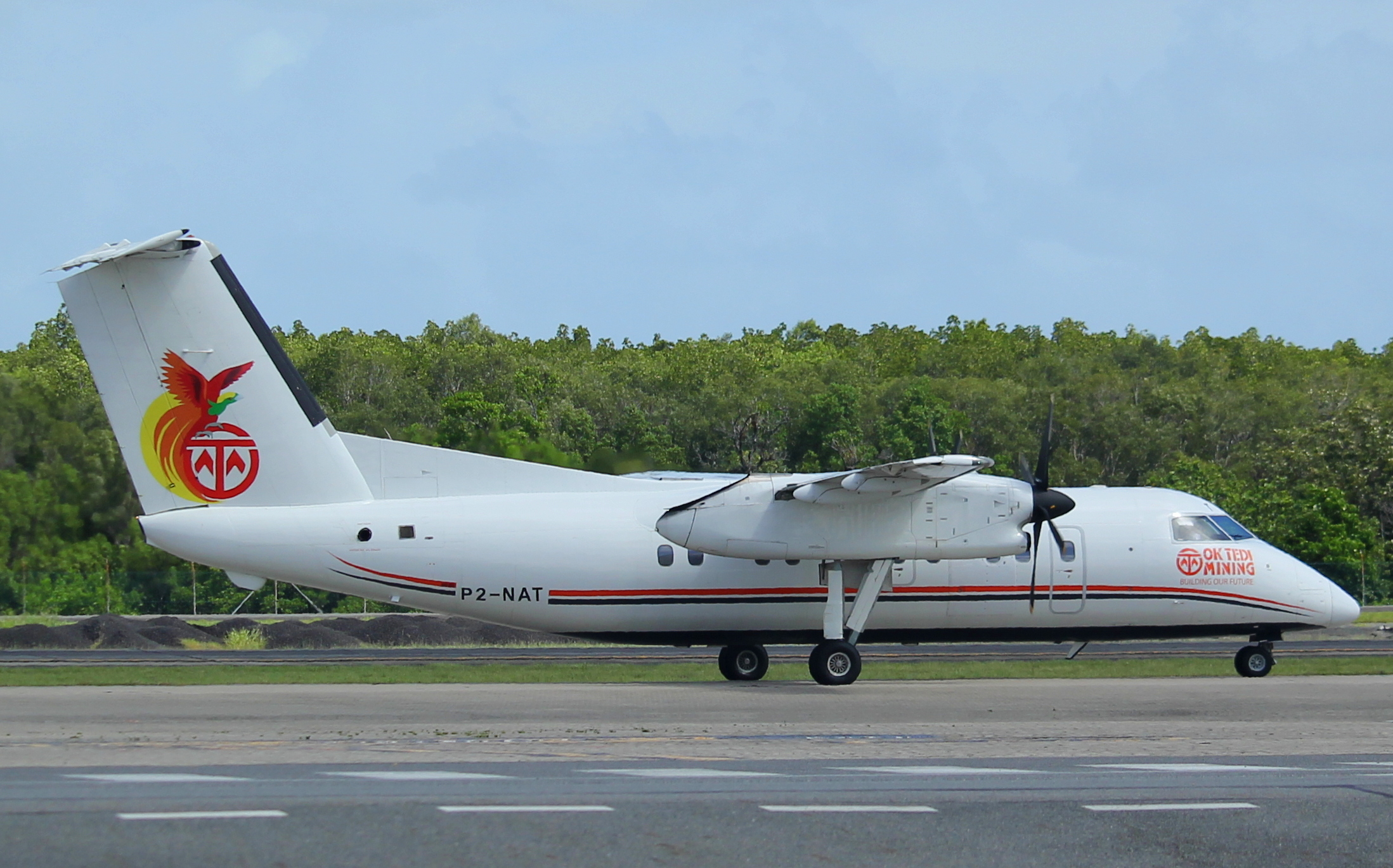 Asia Pacific Airlines de Havilland Canada DHC-8-103 (P2-NAT) at Cairns Airport. The aircraft is operated for Ok Tedi Mining